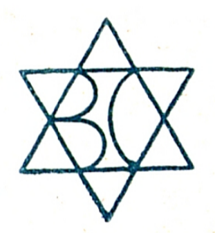 Insignia of the Cuban political organization ABC as it appears on their anonymous Manifiesto-Programa published in 1932.